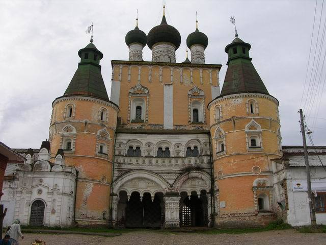 Russia. Yaroslavl Oblast. Borisoglebsky Monastery in Borisoglebsky. Sretenskaya Church